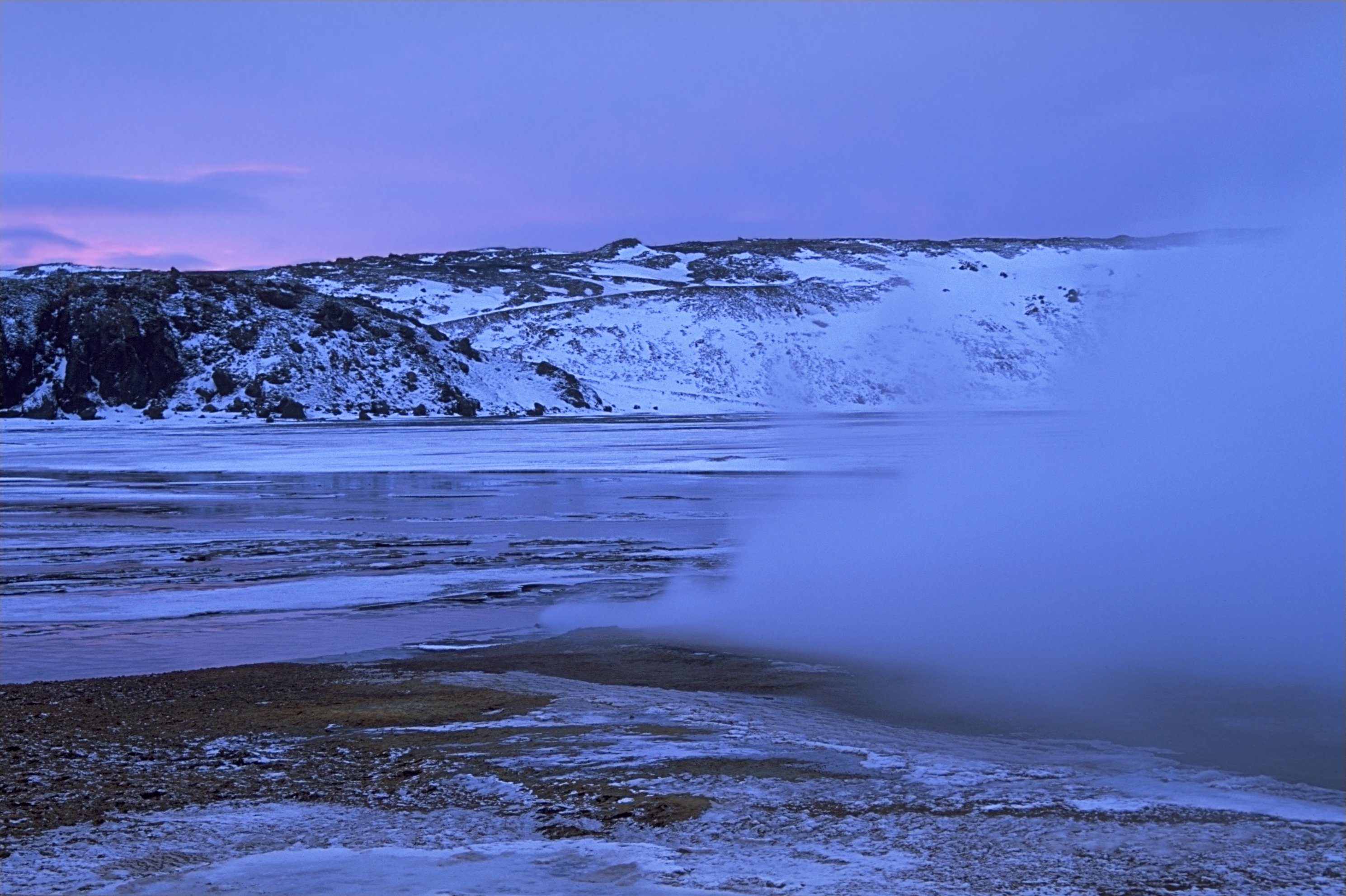 Sunrise at Kleifarvatn, Iceland Photo was taken using the following technique: Film: Fuji Velvia Lens: 2.8/28 Filter: none Body: Minolta 7 Support: Manfrotto 190B Image with Information in English Bild mit Informationen auf Deutsch